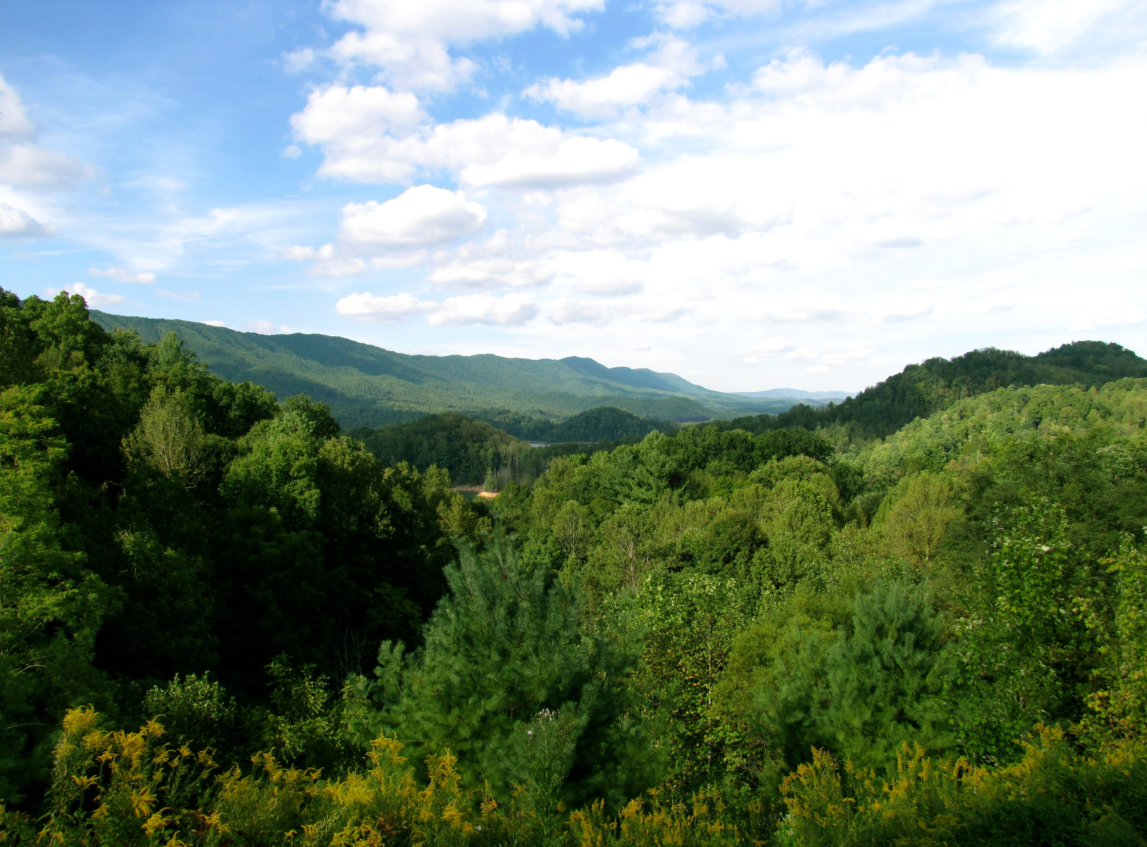 Trees and vegetation in the Watauga Valley, looking into eastern Carter and western Johnson counties, Tennessee, United States, from the Doodle White Overlook off U.S. Route 321 near Fish Springs. The Iron Mountains span most of the horizon.